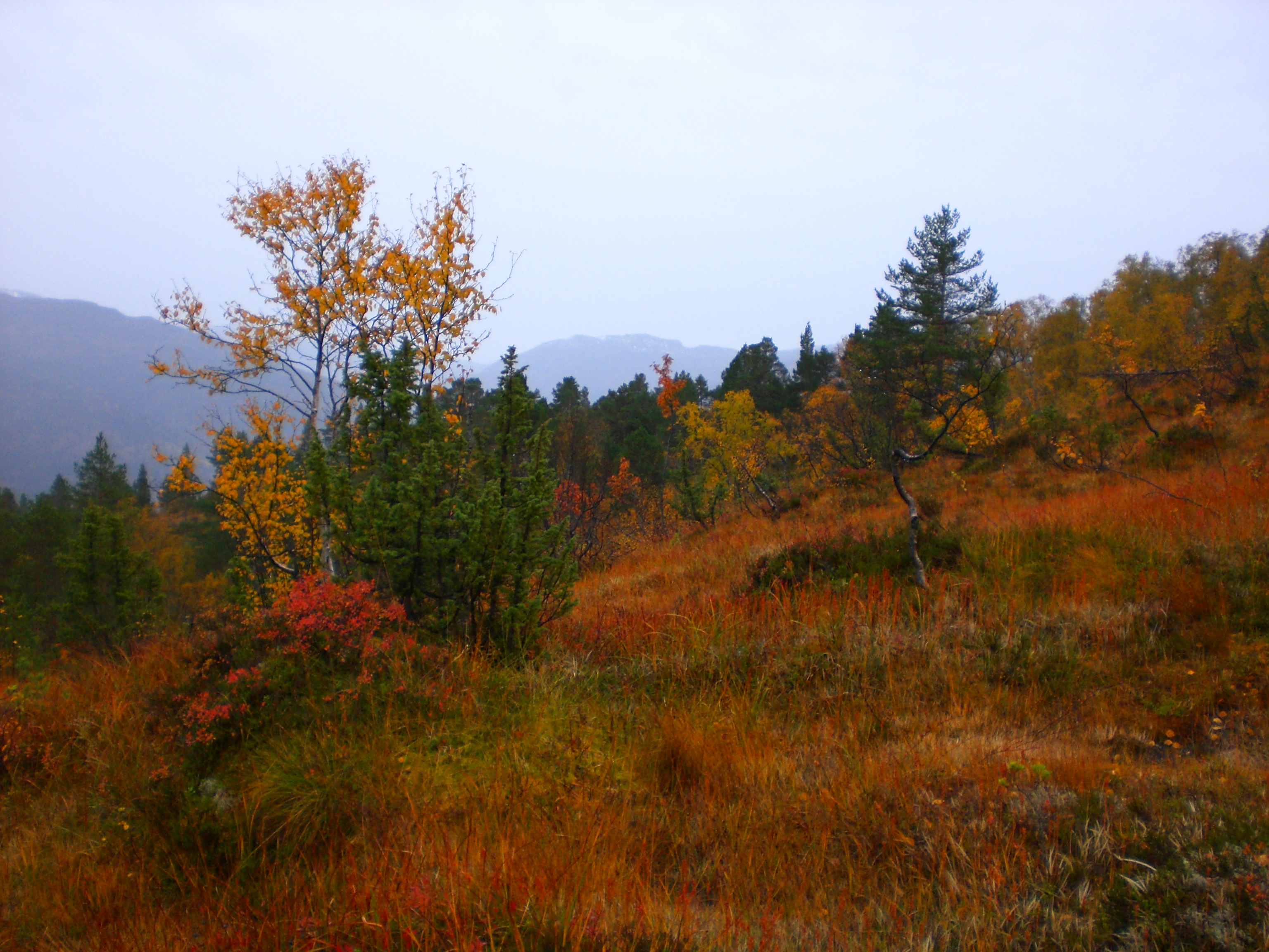 Autumn scenery Norway